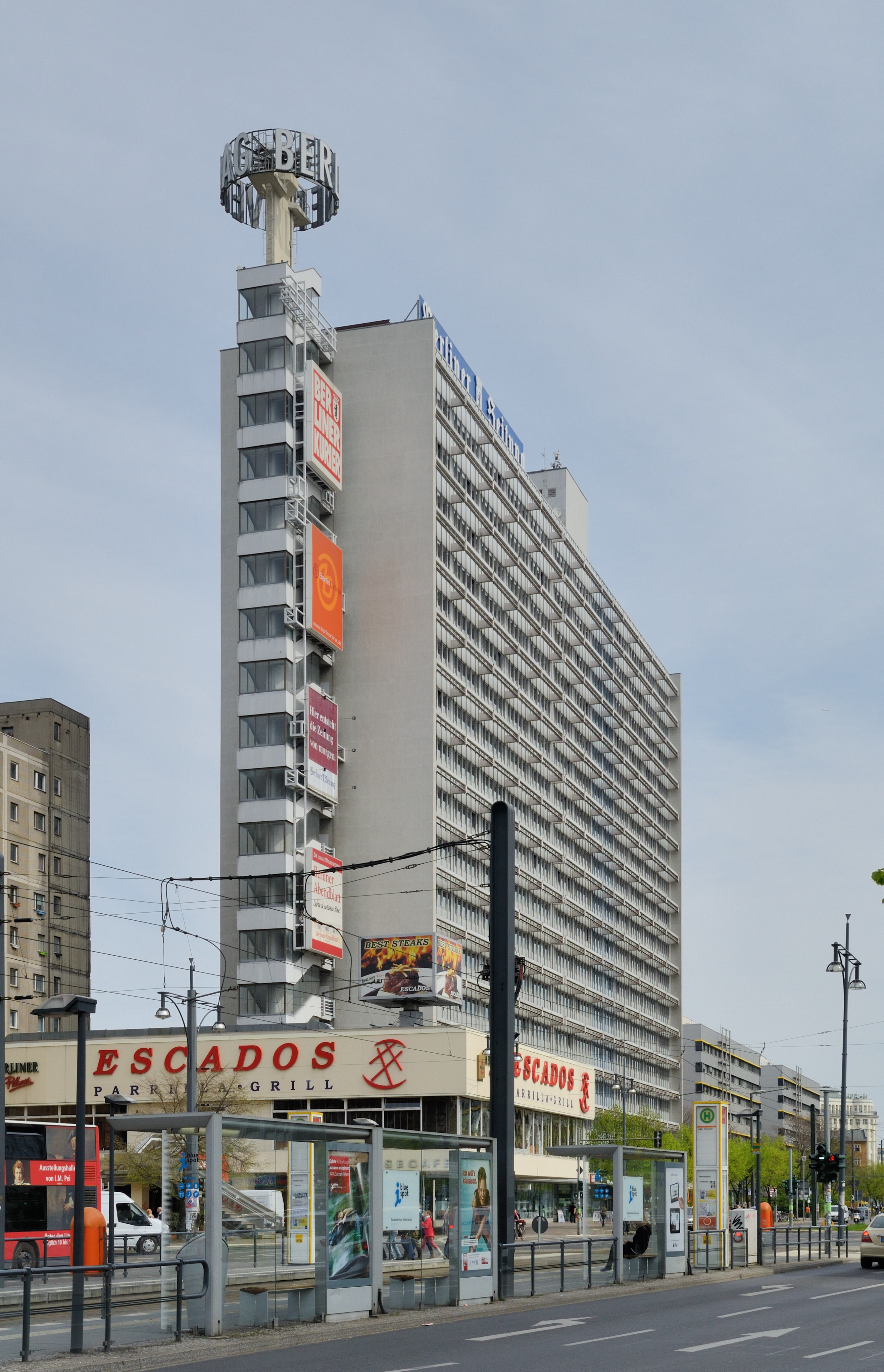 Berlin: publishing house of "Berliner Zeitung"